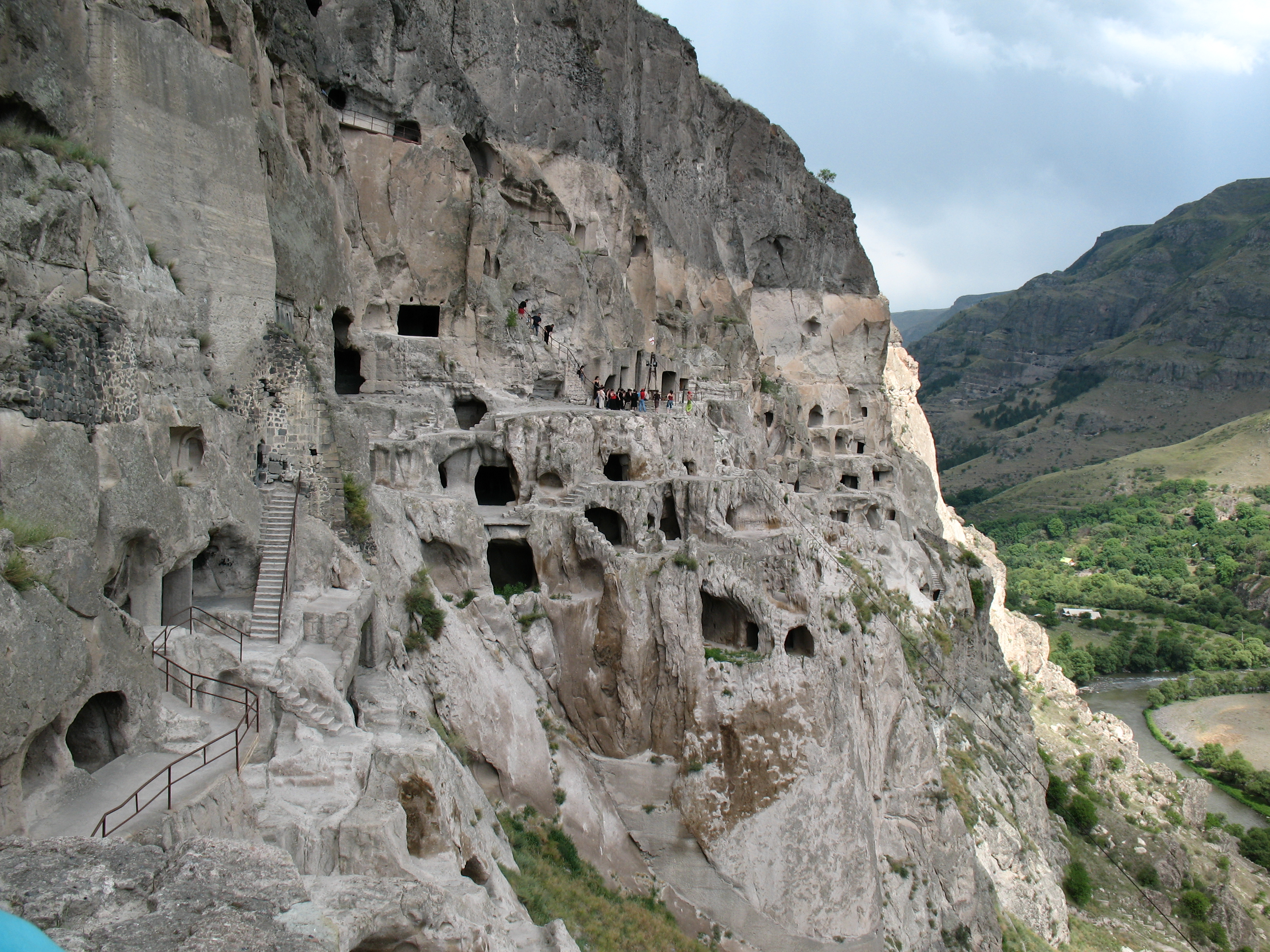 Vardzia in Georgia